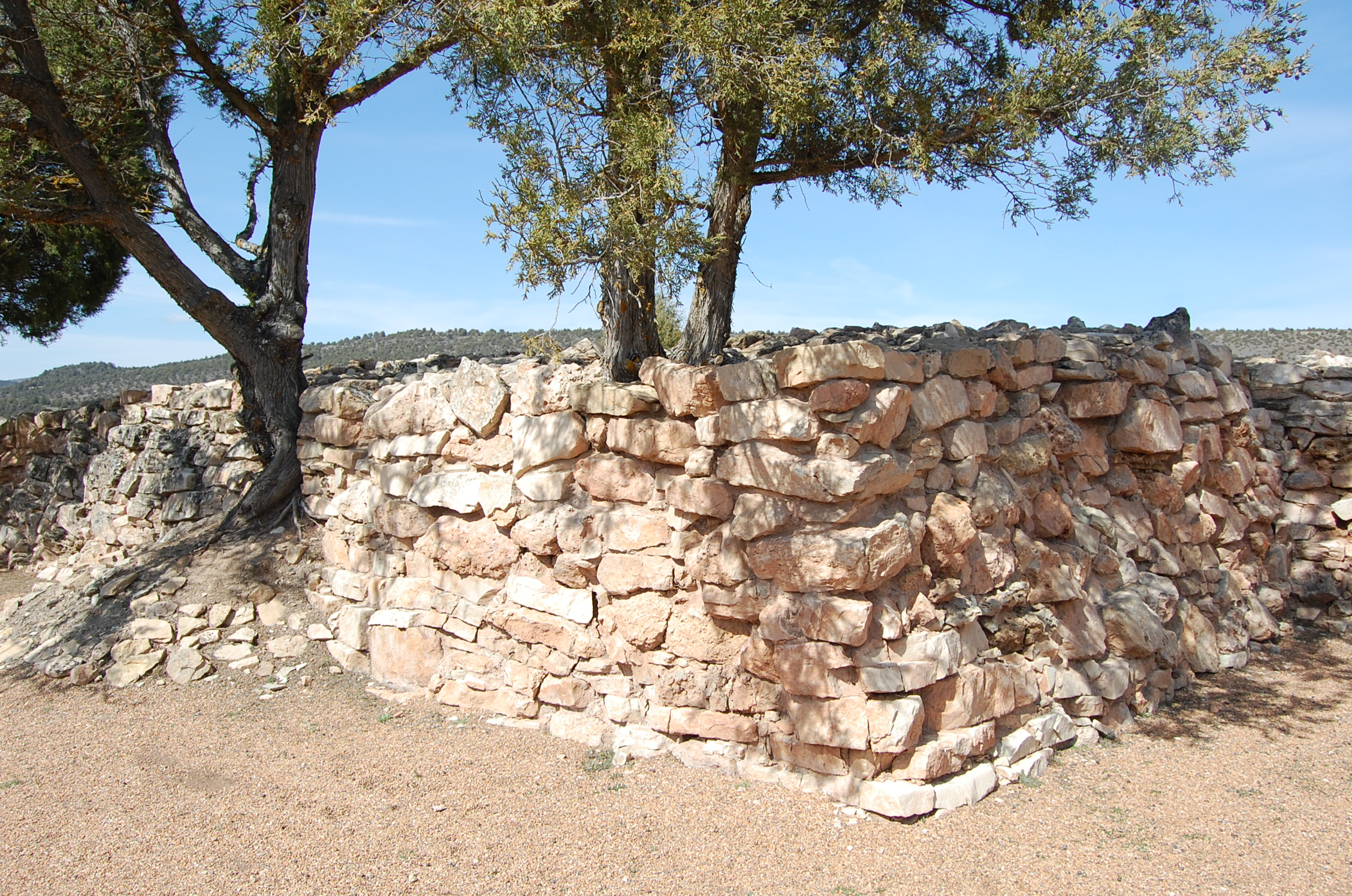 View of tower of the fort celtberian "El Ceremeño".